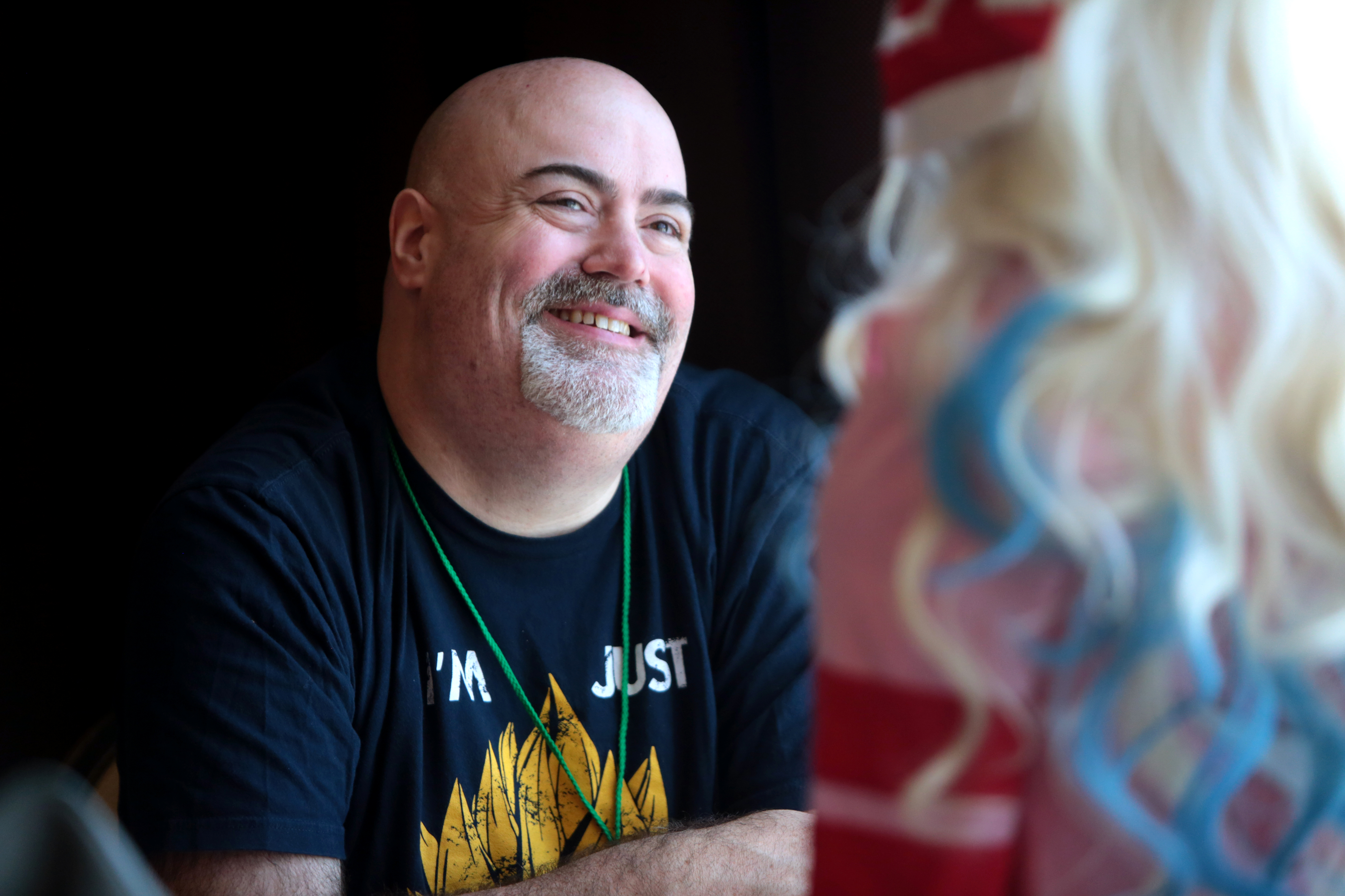 Kyle Hebert speaking at Saboten Con in Phoenix, Arizona.